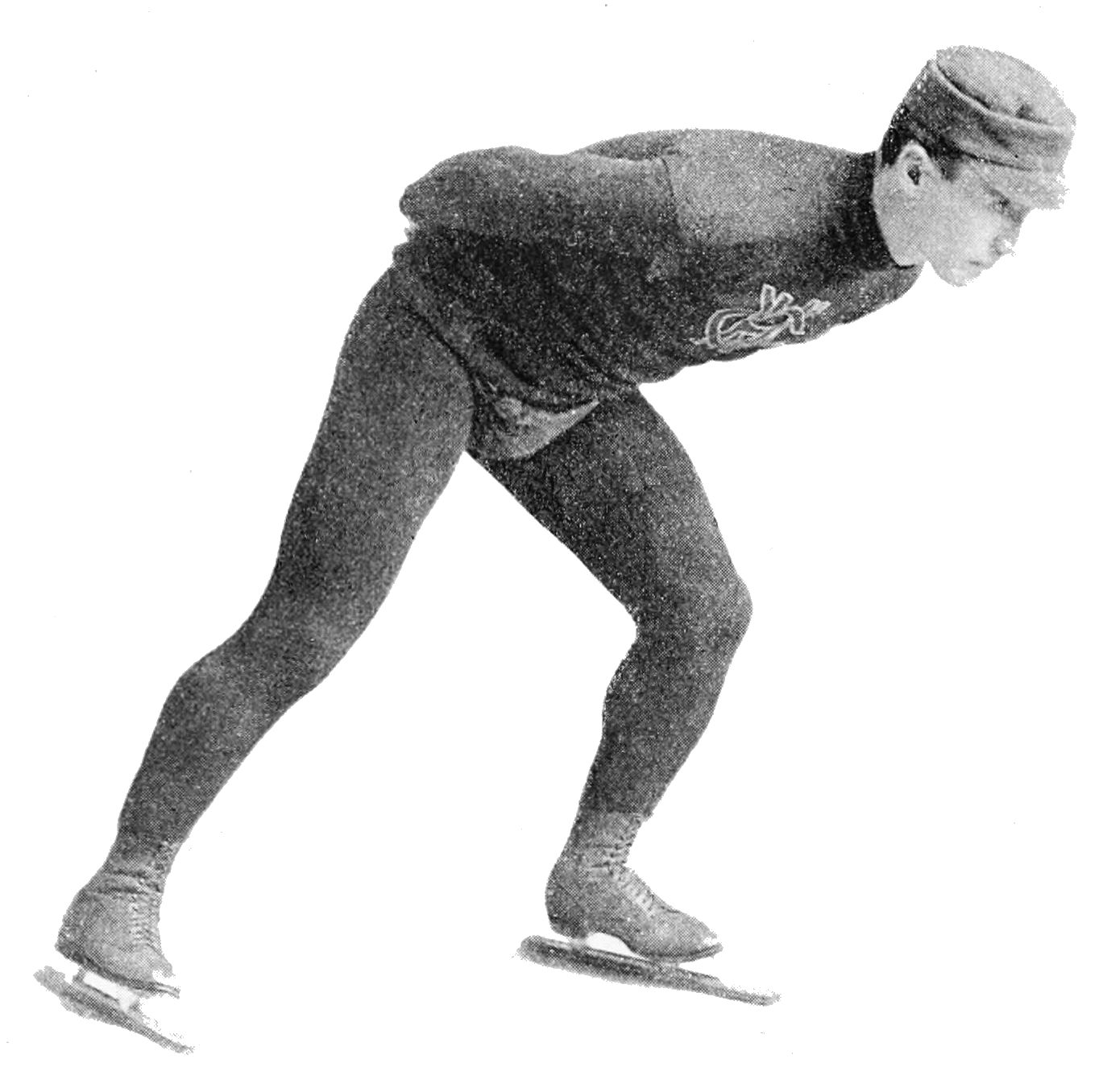 J K McCulloch in skating position